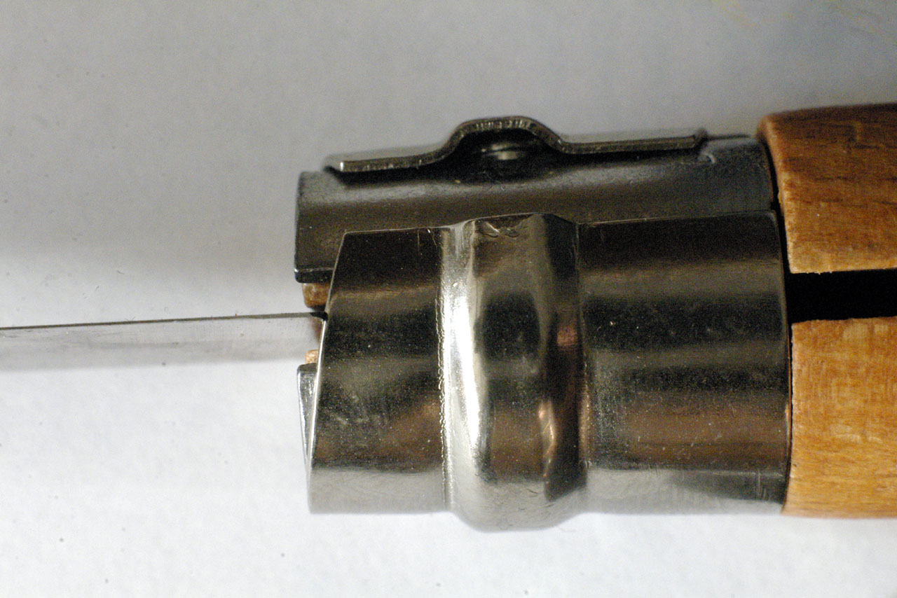 Opinel-Pocket-Knife opened and safety-ring closed